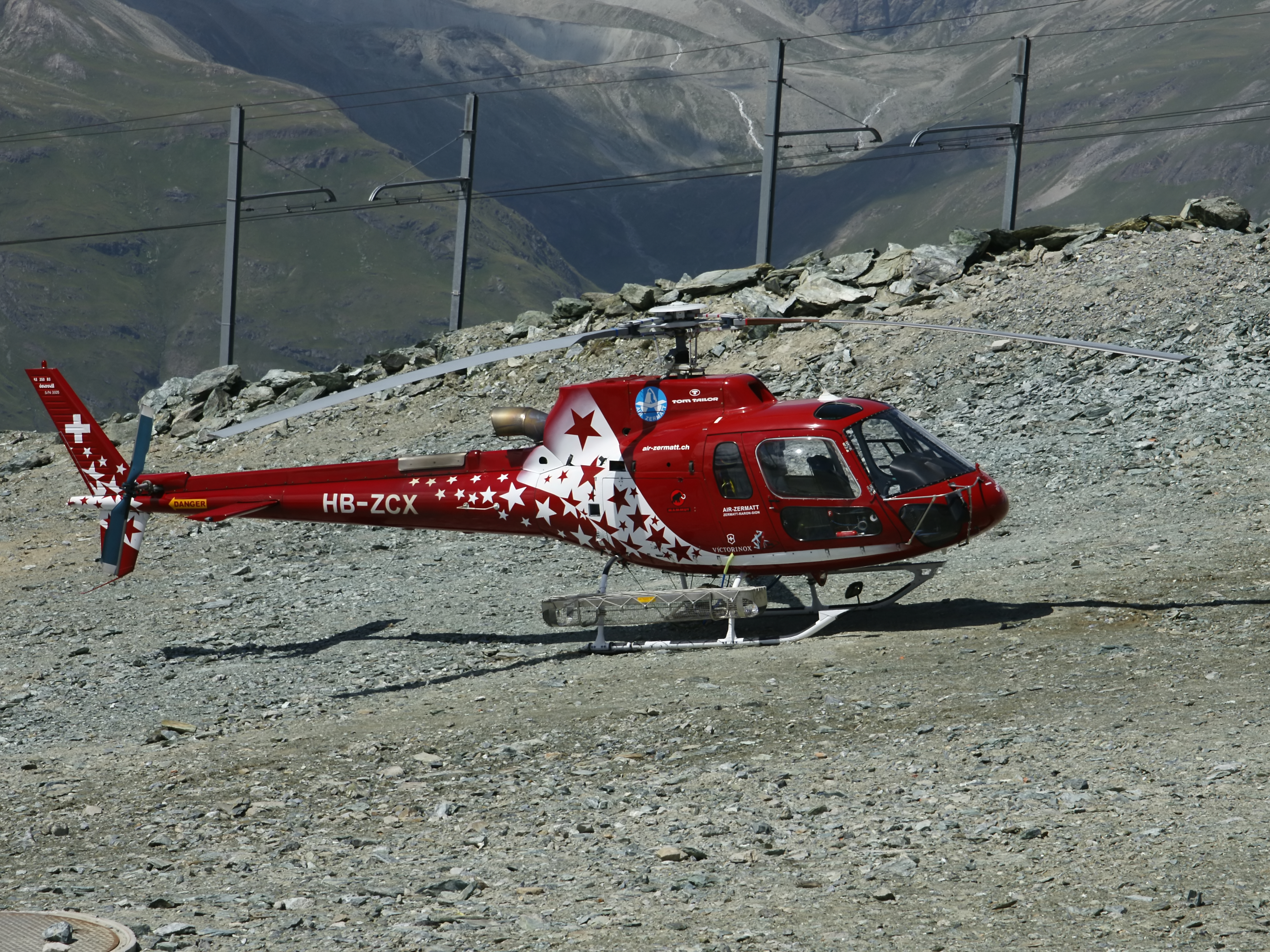 HB-ZCX AS.350B3 of Air Zermat at Gornergrat, Switzerland